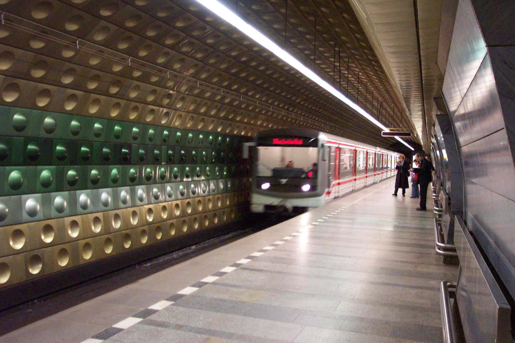 Metro station Malostranská, train arriving